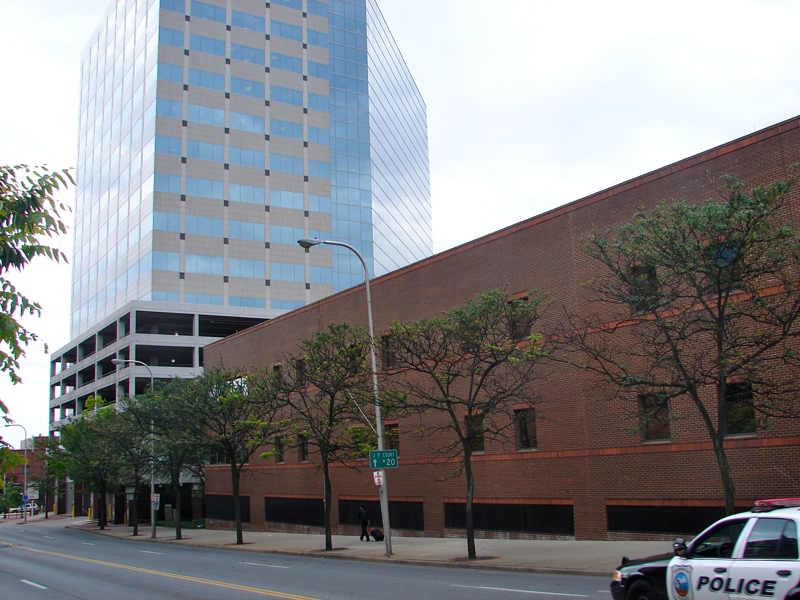 Former site of the Philips-Thompson Buildings, on the NRHP since April 16, 1980, at 200-206 E. 4th St., Wilmington, Delaware. Looking south toward a bank, and behind it the Public Safety Building (JP). Obviously torn down, the buildings served the local agricultural industry which has fallen to suburbanization.